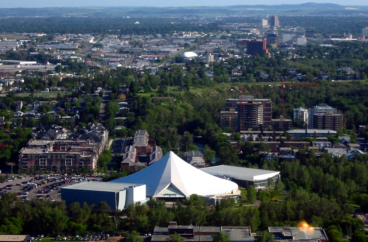 Talisman Center in Calgary, Alberta, Canada. Erlston neighbourhood in lower left, Manchester in background.